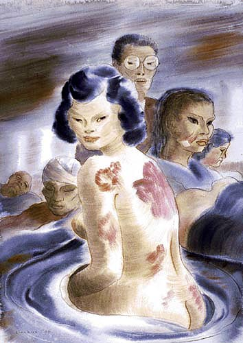 Standish Backus, At the Red Cross Hospital, Hiroshima